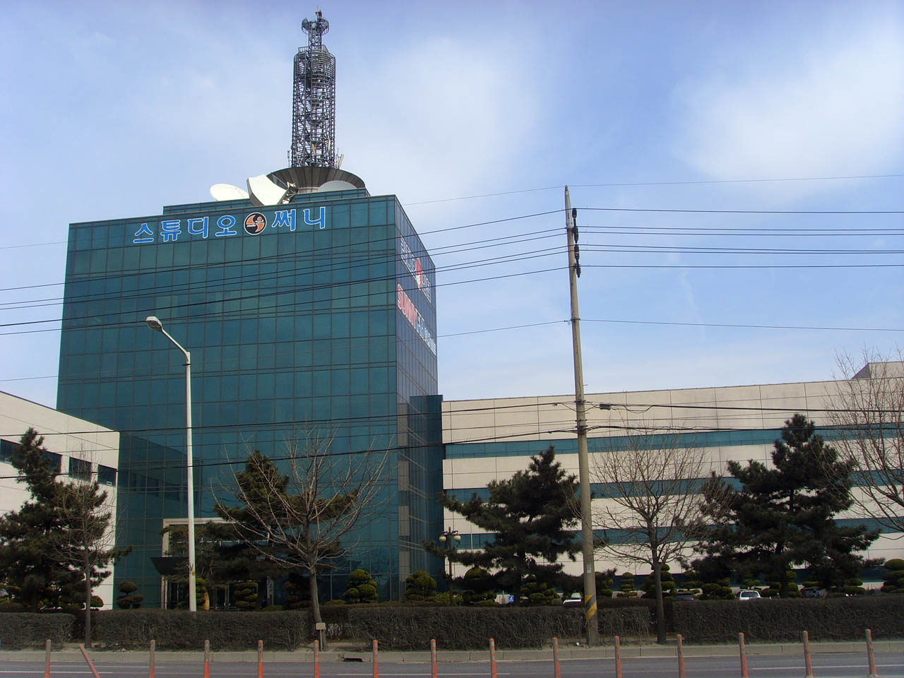 Kyungin (Gyeongin) Broadcasting